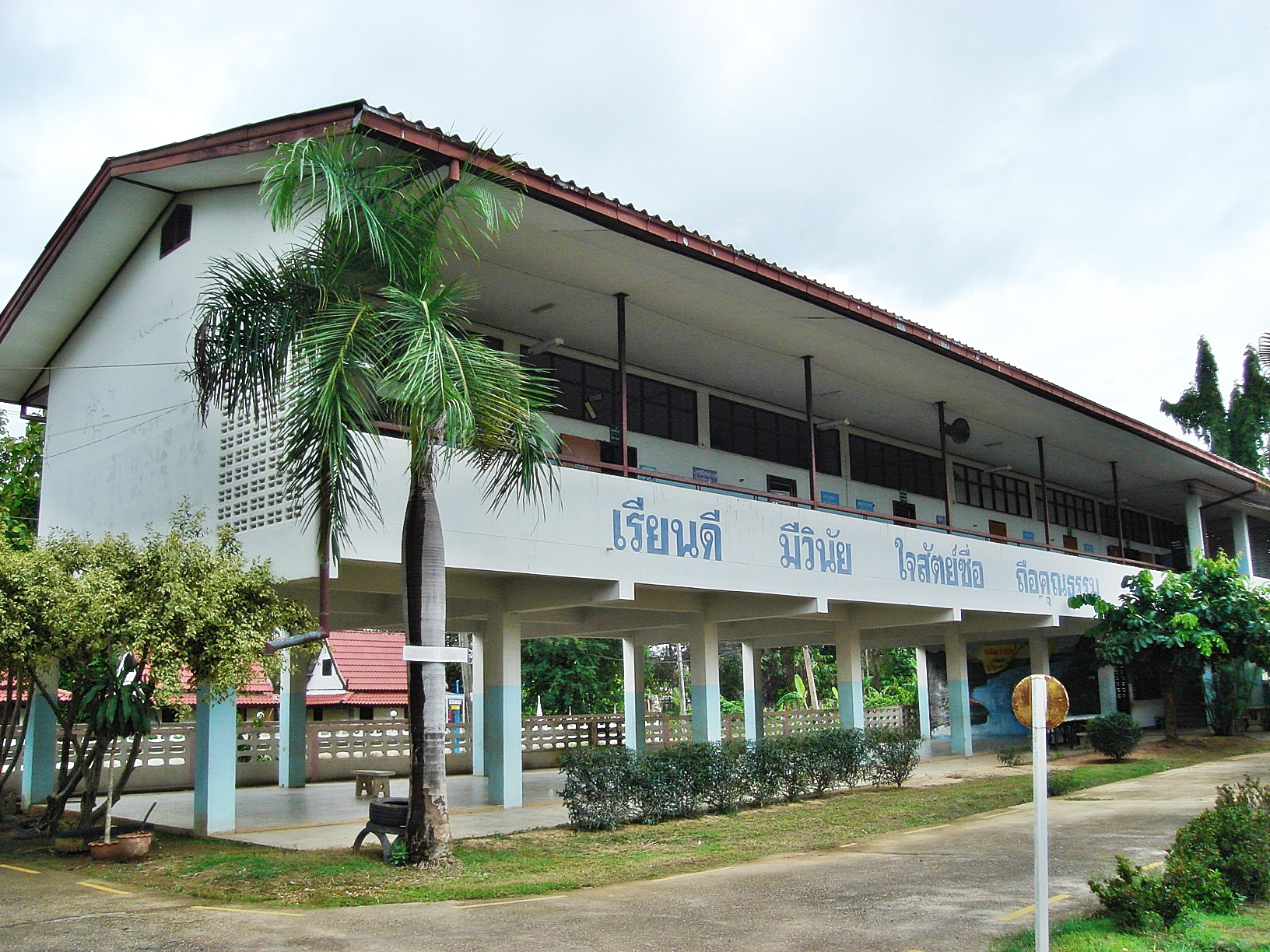 Ban Khung Taphao School.Location: Ban Khung Taphao School Ban Khung Taphao, Khung Taphao subdistrict, Mueang Uttaradit, Uttaradit Province, Thailand.